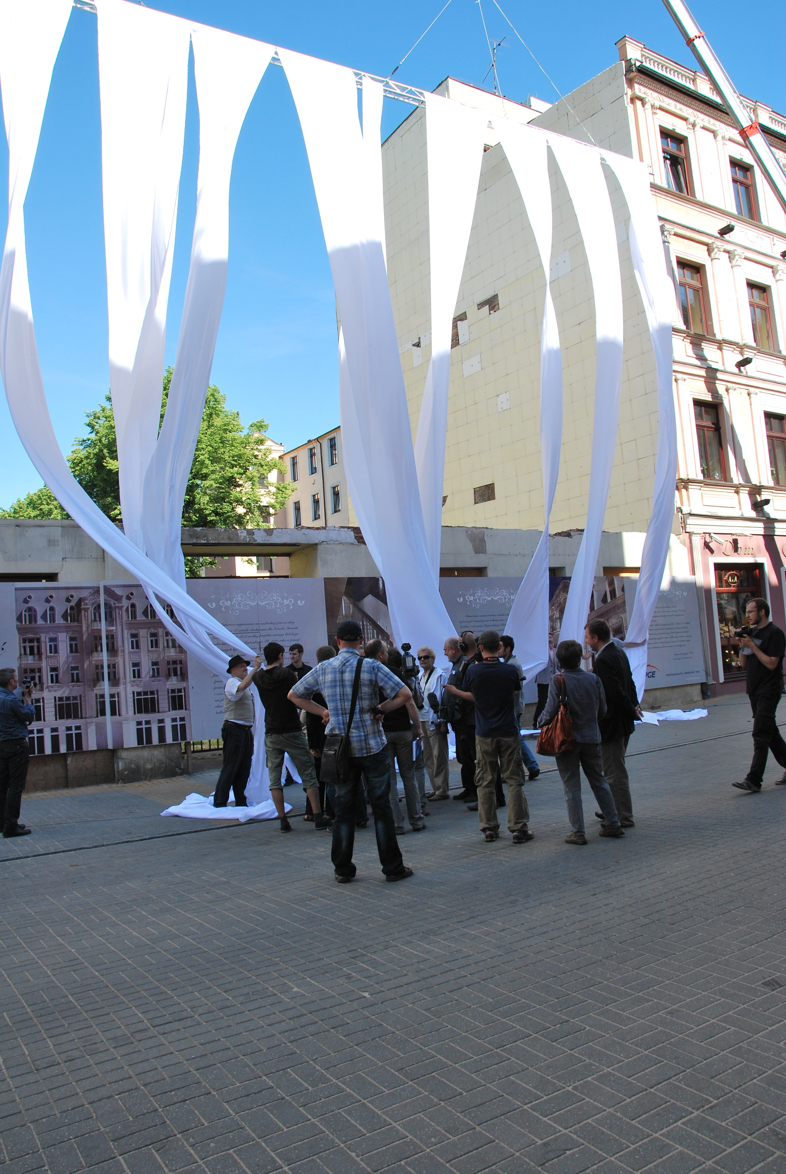 30 yrs of unveiling "The Tenement House Monument", Łódź Piotrkowska Street